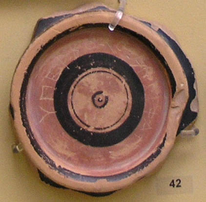 Ostracon bearing the name of Hyperbolus, 417-415 BC. Ancient Agora Museum in Athens.